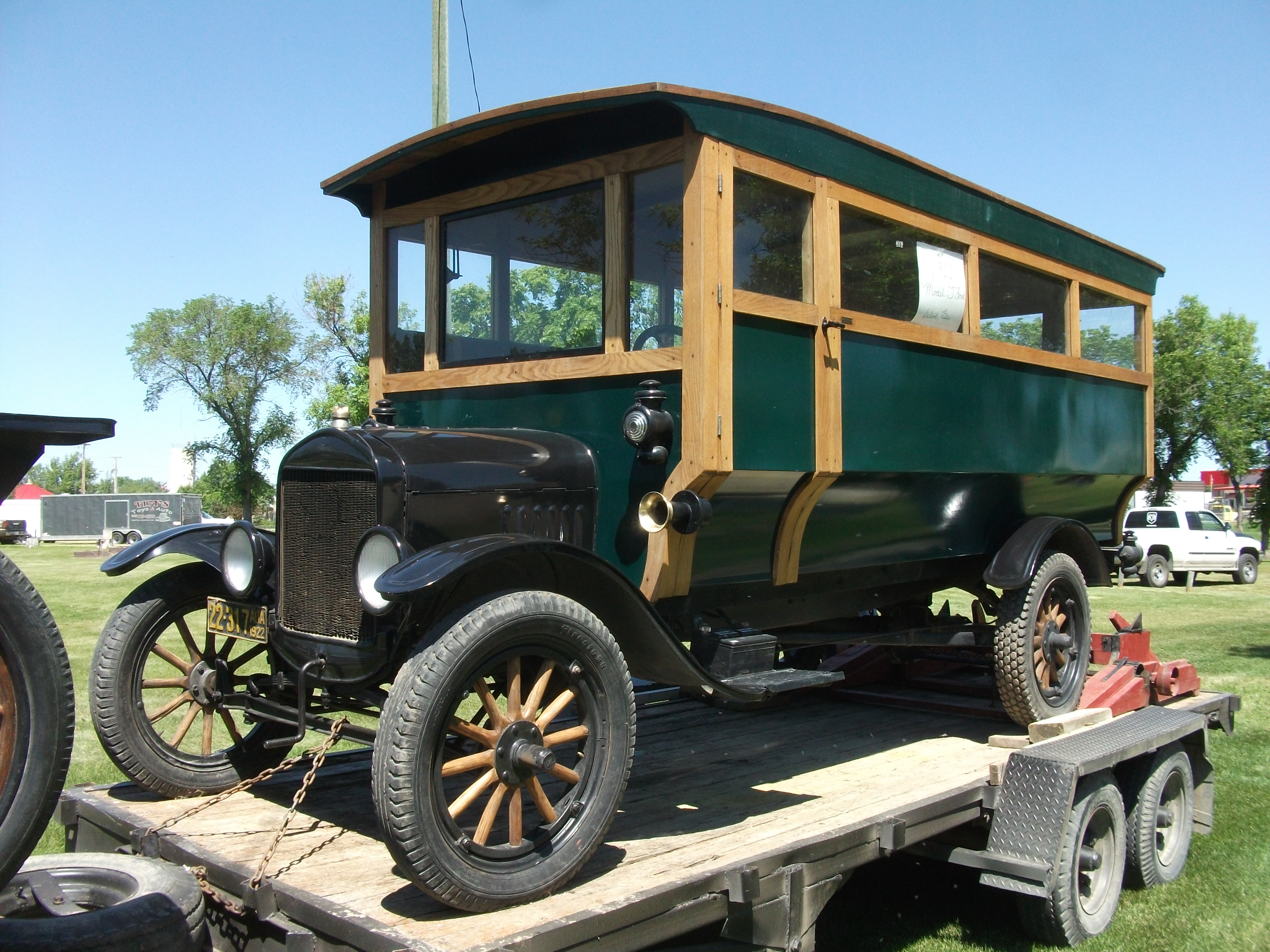 A photograph of a restored school bus (body manufacturer unknown) on a 1922 Ford Model T chassis.